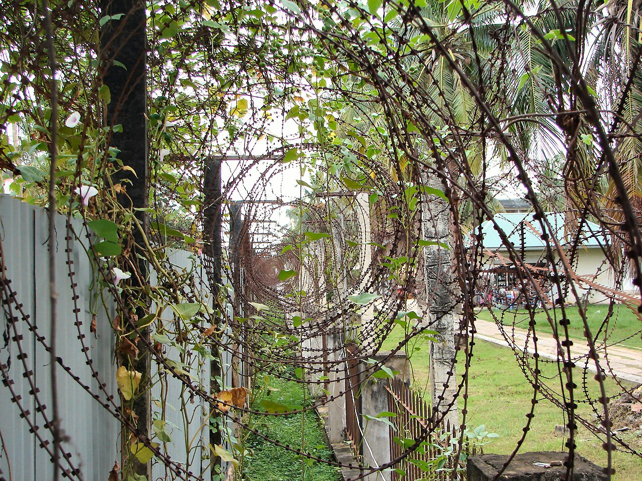 From the perimeter of the former S-21 Security Prison, now Tuol Sleng Genocide Museum in Phnom Penh, Cambodia